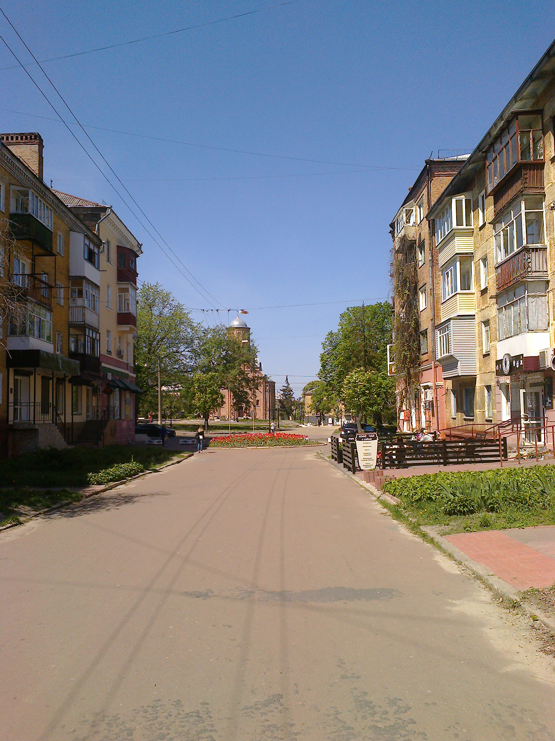 Seryozhnikova street, Chernihiv